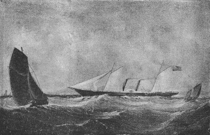 The painting: HOLYHEAD AND KINGSTOWN MAIL PACKET "PRINCE ARTHUR"—400 TONS—PERIOD 1850-60.